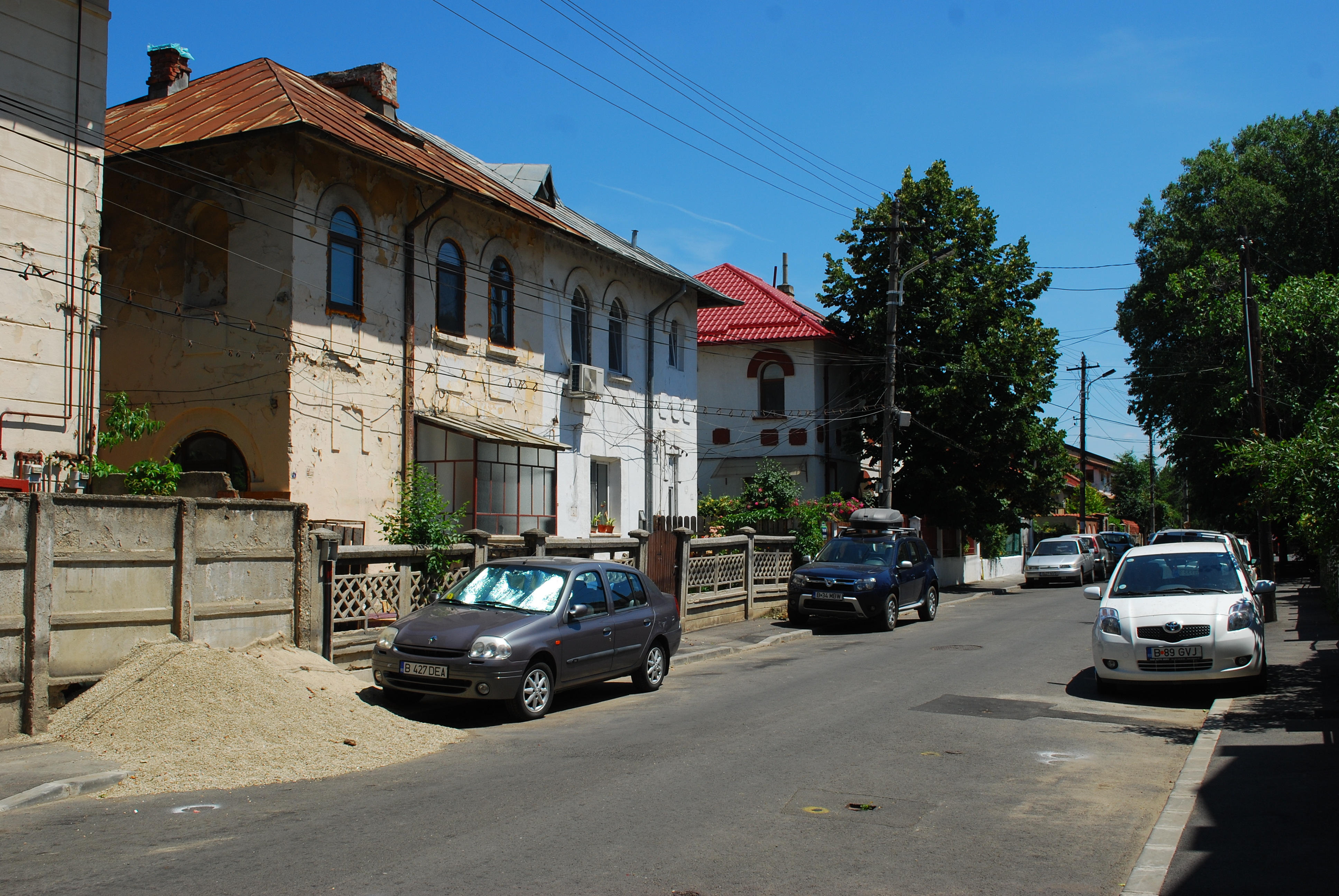 Șerban Vodă lots group, Bucharest, RomaniaRomână: Parcelarea Șerban Vodă, București, România